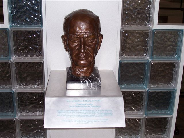 Eli Thomas Reich bust on display at the Naval Undersea Museum in Bremerton. Bust created by Felix de Weldon (the guy who did the USMC War Memorial better known as the Iwo Jima Memorial in Arlington National Cemetery). The caption on the plaque can be seen here. Photo supplied by Reich family for use under the GFDL.